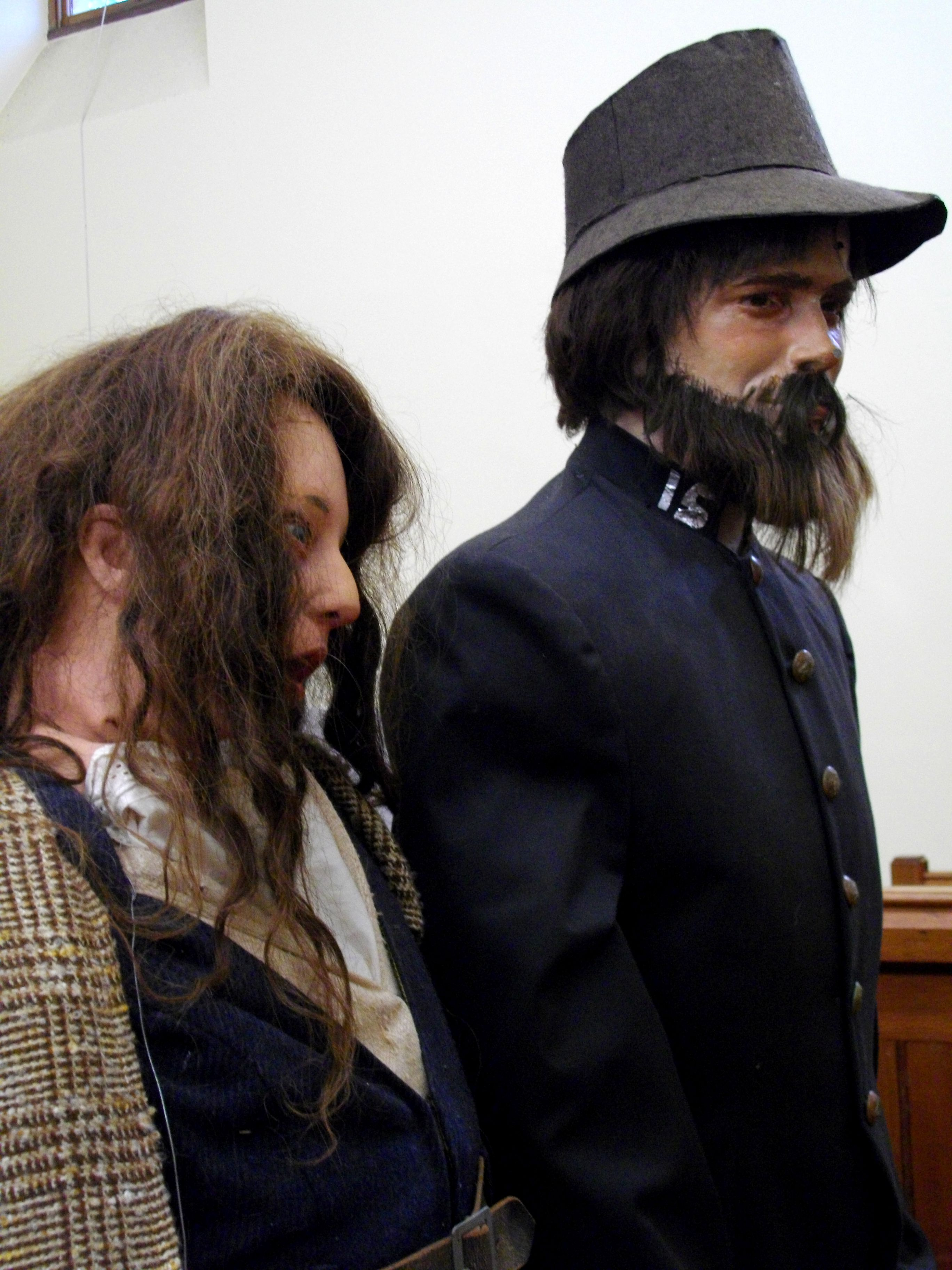 The courtroom of the Berrima courthouse, NSW, Australia, is fitted out with manikins simulating the 1843 murder trial of Lucretia Dunkley and her lover Martin Beech. This picture is of the defendants in the dock.